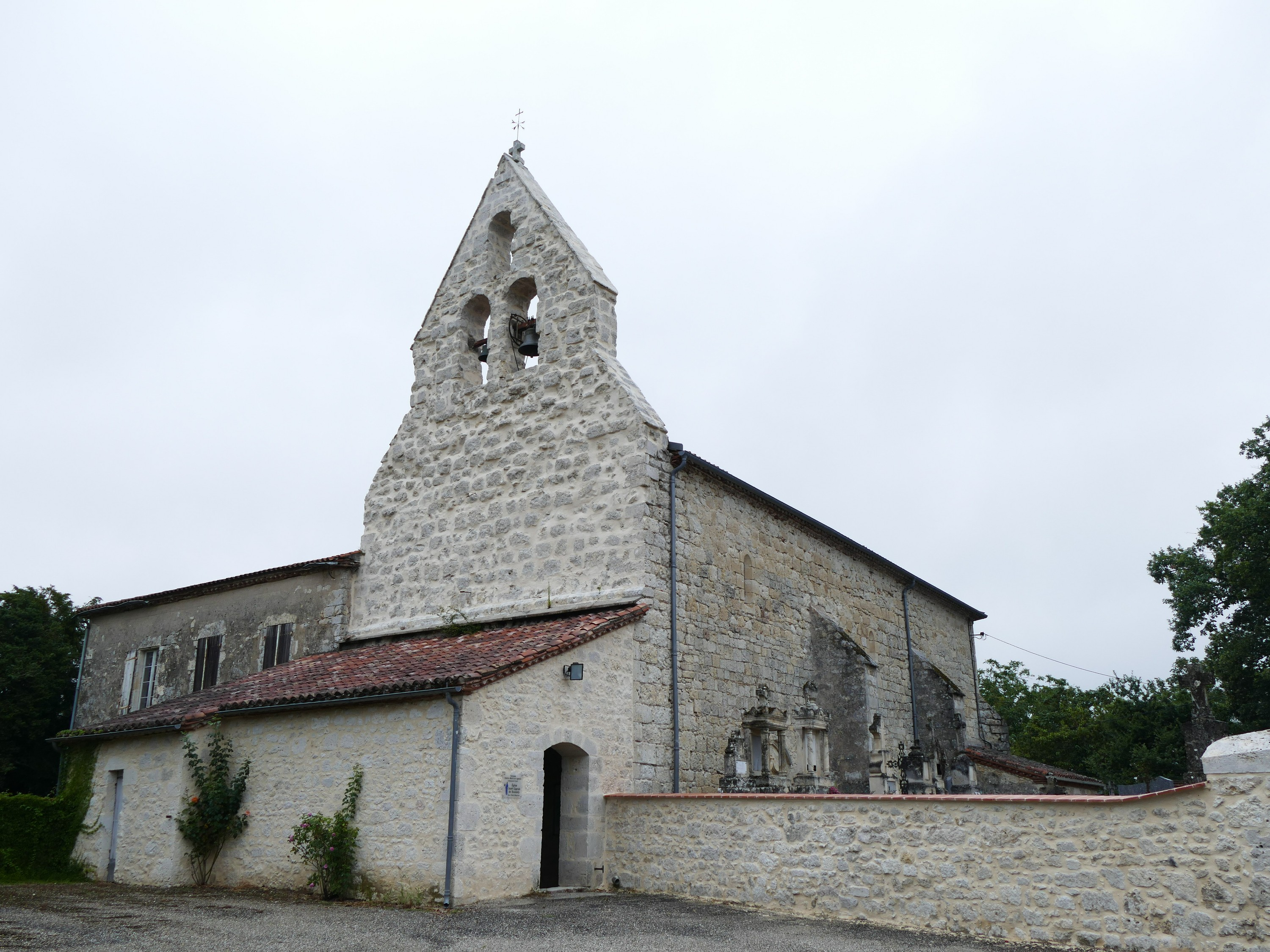 Saint-Caprais' church in La Croix-Blanche (Lot-et-Garonne, Aquitaine, France).